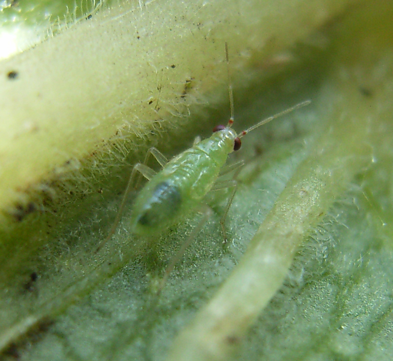 Dicyphus pallicornis (Miridae), nymph on Digitalis purpurea, Lower Saxony (Germany)